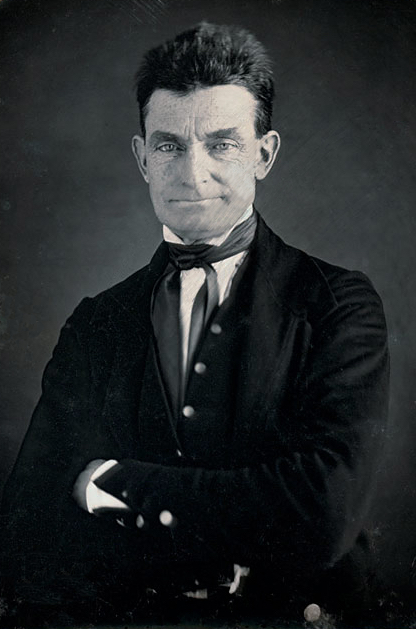 Photo without frame (Version with frame